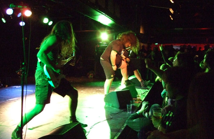 Tankard live at "South of Heaven", Betong in Oslo, Norway